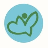 Osakikamijima Hiroshima chapter